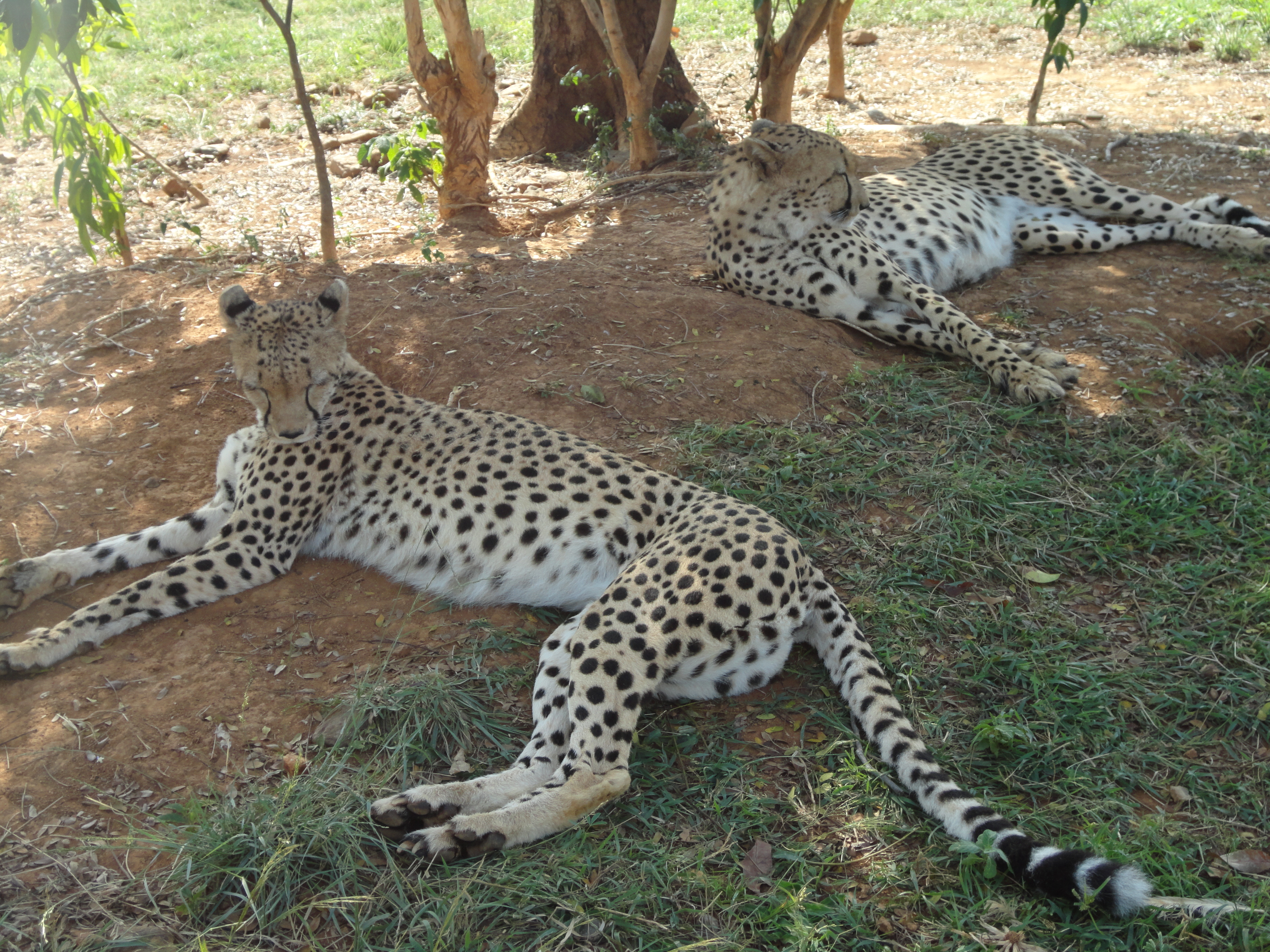 Kisumu is very hot and the cheetahs like relaxing under the shade